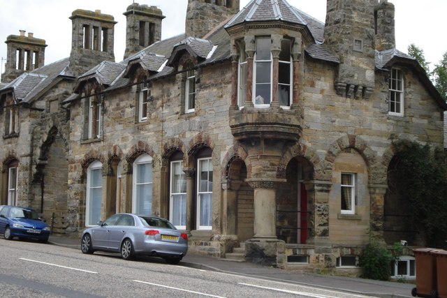 Parkend, Bridge Street, Penicuik This building, on Bridge Street to the north of the Telford Bridge on the A701 and said to be in a Venetian-Gothic" style, was built by Frederick Pillington of Edinbugh. This architect also built the old free Church, now the South Church, on the other side of both the bridge and the road in a similar style in 1862